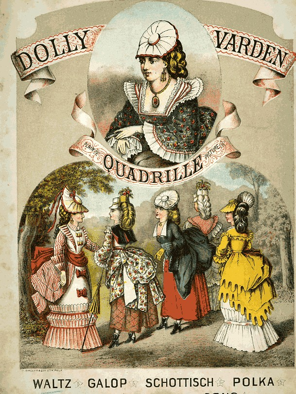 Printed cover for a music sheet for the "Dolly Varden Quadrille"